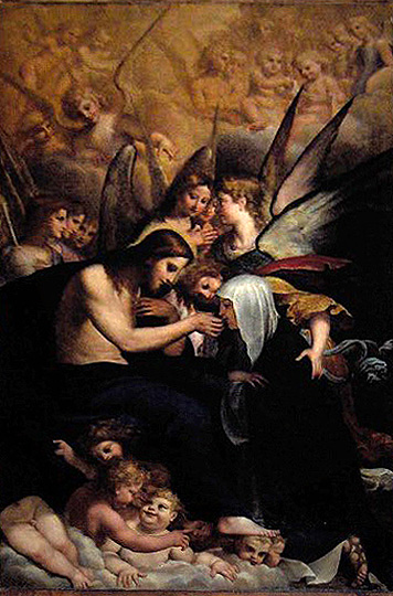 "St Catherine's mystic communion" by Francesco Brizzi (1546-1625); Chapel of St Catherine of Siena, Basilica of Saint Dominic, Bologna, Italy